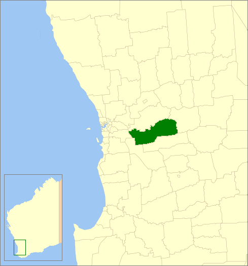 Description=Location of the Local Government Area in Western Australia